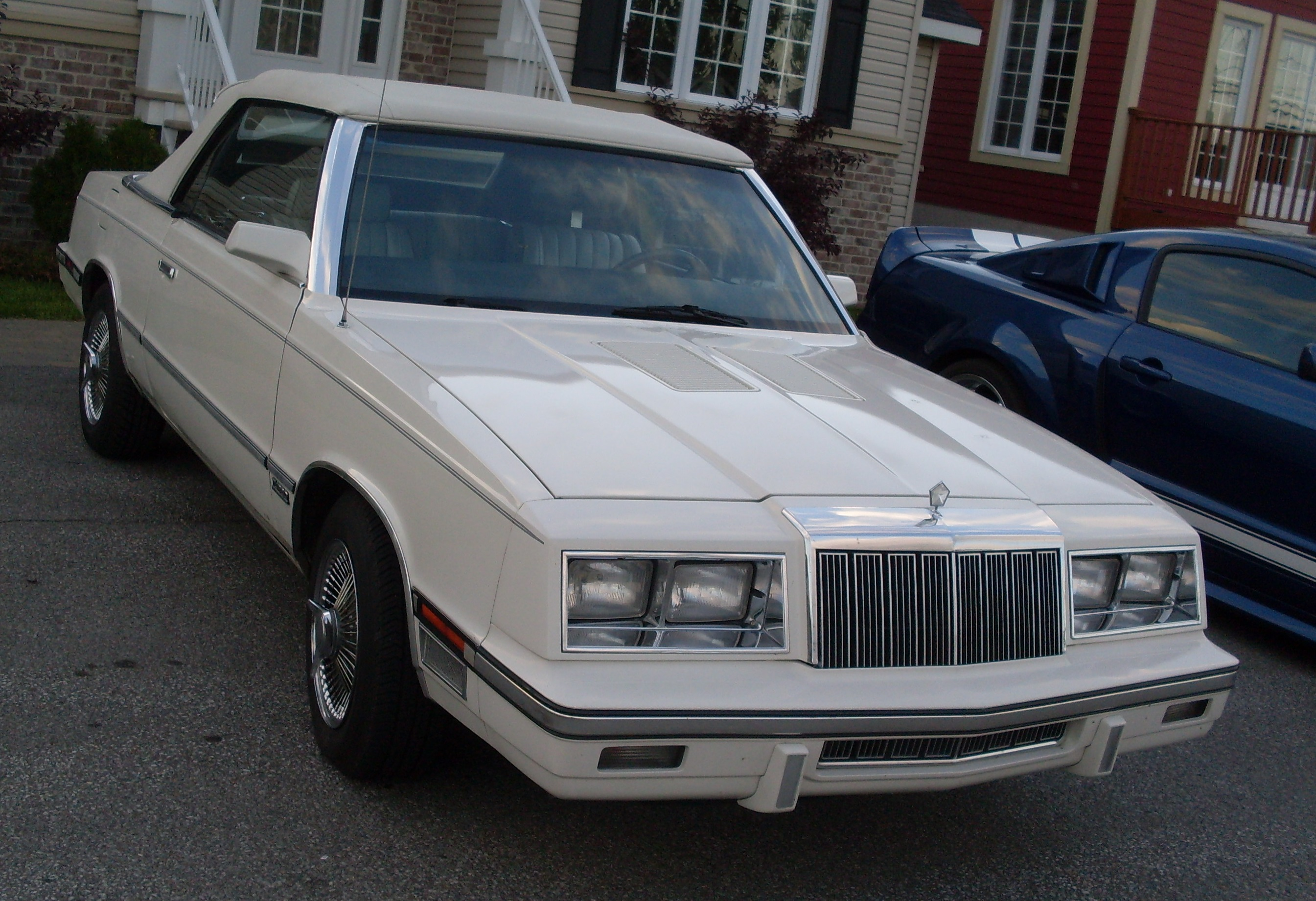 Chrysler LeBaron photographed in St. Lin/Laurentides, Quebec, Canada at Auto classique St-Lin/Laurentides.